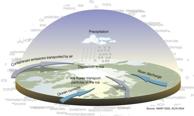 author: Hugo Ahlenius, UNEP/GRID-Arendal source: Arctic Monitoring and Assessment Programme, Arctic Climate Impact Assessment URL